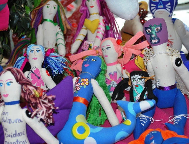 Dolls created by Ana Karen Allende of Retacitos